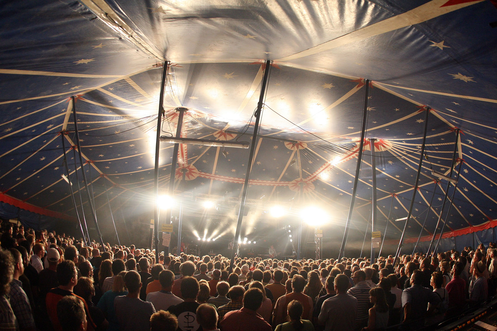 Musikzelt